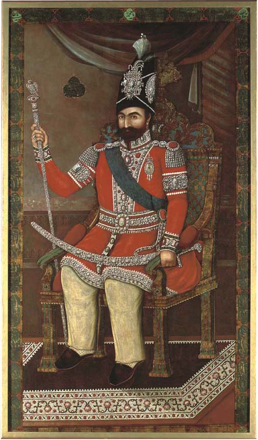 Meanwhile, for comparison and contrast: Muhammad Shah Qajar (r.1834-48) (downloaded Sept. 2005) "MUHAMMAD SHAH QAJAR, BY AHMAD, DATED AH 1260 1844 AD. Oil on canvas, the Shah seated on a chair in an interior wearing a red coat copiously embellished with pearls and diamonds, in a blue sash, jewelled epaulettes, bazubands, tassels and cuffs, with a thick beard and wearing a tall black cap encrusted with gems incorporating an inscription, holding a sceptre completely covered in diamonds and rubies, in his lap a sword encrusted with diamonds, on a carpet decorated with pearls, identificary inscription in cusped cartouche reading Al-Sultan b. al-Sultan Muhammad Shah Qajar, the painting signed faintly in the lower leftt raqam kamtarim Ahmad 1260, within a border of panels of nastal'liq verses divided by cusped roundels containing a hymn in his praise, the calligraphy signed in a green cartouche in the lower right corner Muhammad Isma'il ..., small repaired tear, re-lined, framed. 87½ x 50in. (222.5 x 127cm.) Lot Notes: An outstanding painting of Muhammad Shah in his imperial regalia, this is one of the finest known portraits of the third Qajar ruler. His face is carefully characterised and the attention to detail is exquisite. Bejewelled surfaces gleam with a crystalline clarity, some catching the light, some in the shade. Areas of fabric are enlivened by subtle modulations of tone and an undergarment of fine Kashmir cloth is just visible beneath his coat.